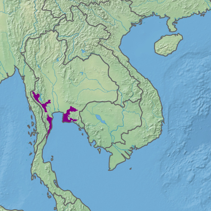 Ecoregion IM0108 - Chao Phraya lowland moist deciduous forests (in purple)